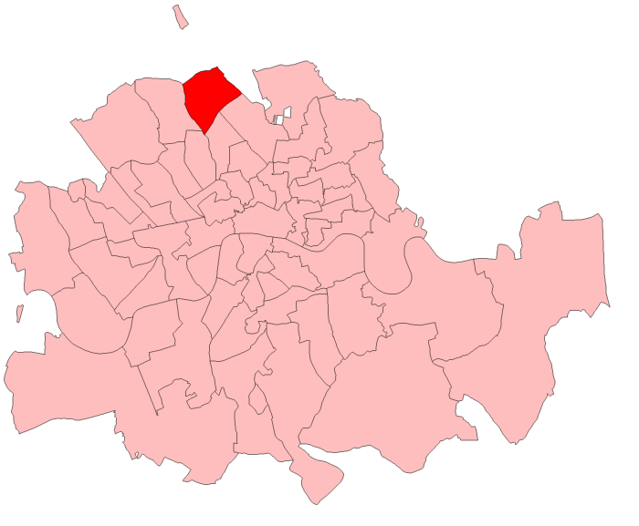 A map of Islington North constituency within the Metropolitan Board of Works area, as it existed from 1885 to 1918.